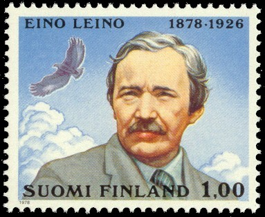 Postage stamp depicting Finnish poet Eino Leino